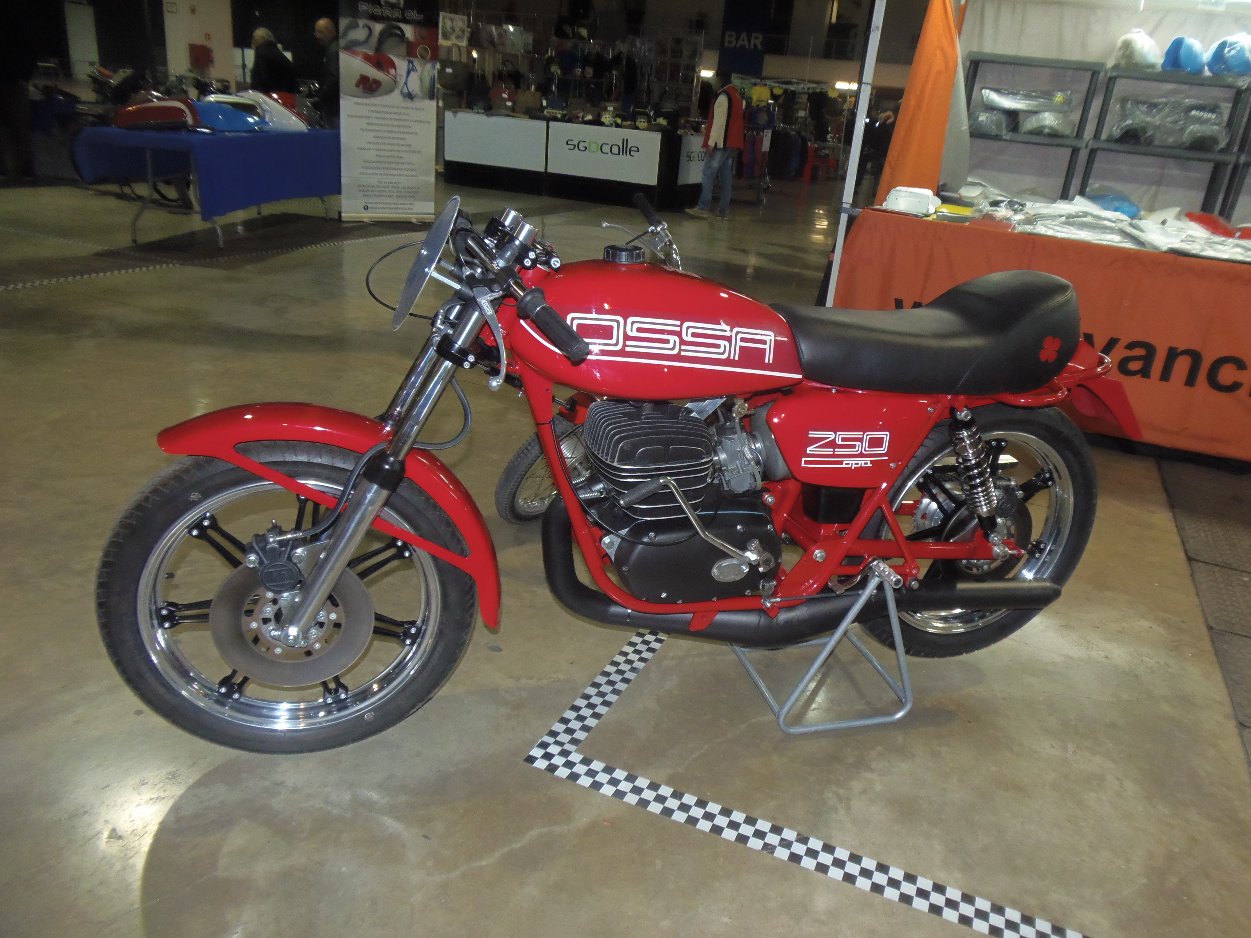 OSSA 250 Copa Formula 3, 1981